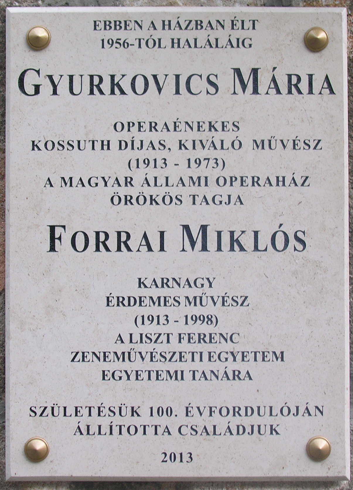 Commemorative plaque of Mária Gyurkovics and Miklós Forrai (Budapest District II, Budent út No18)